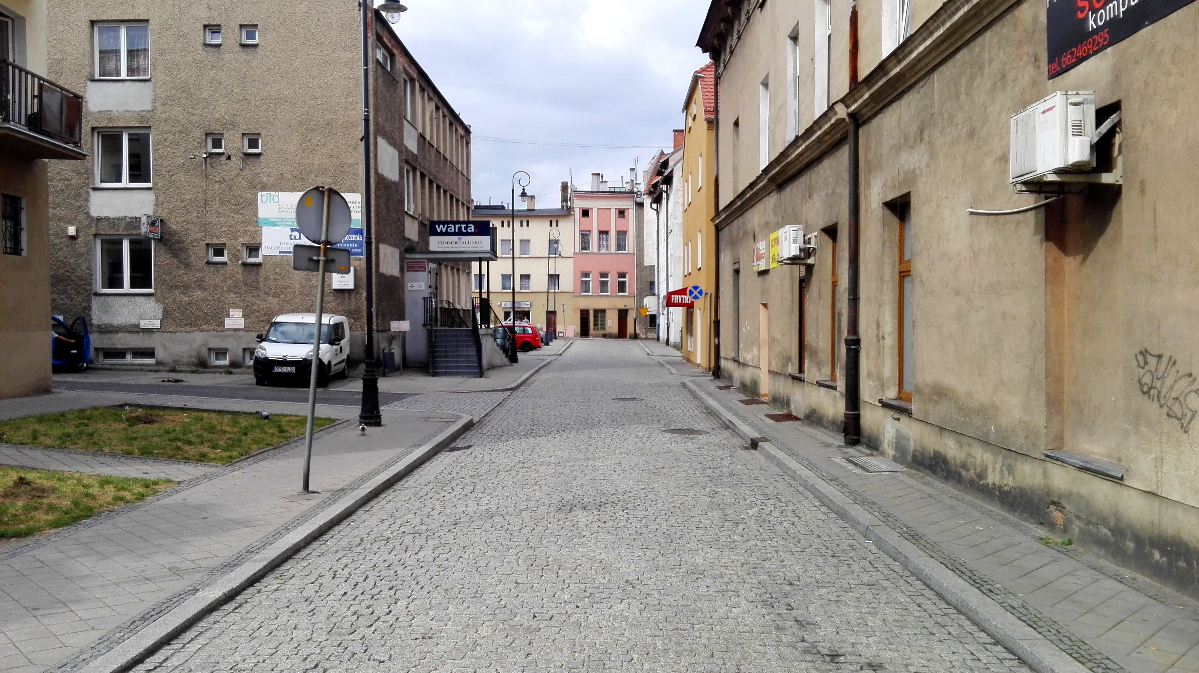 Tkacka Street in Prudnik